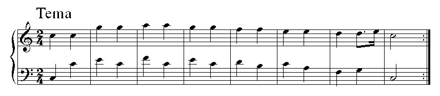 Twelve Variations on "Ah vous dirai-je, Maman" (W. A. Mozart): bars 1-8.